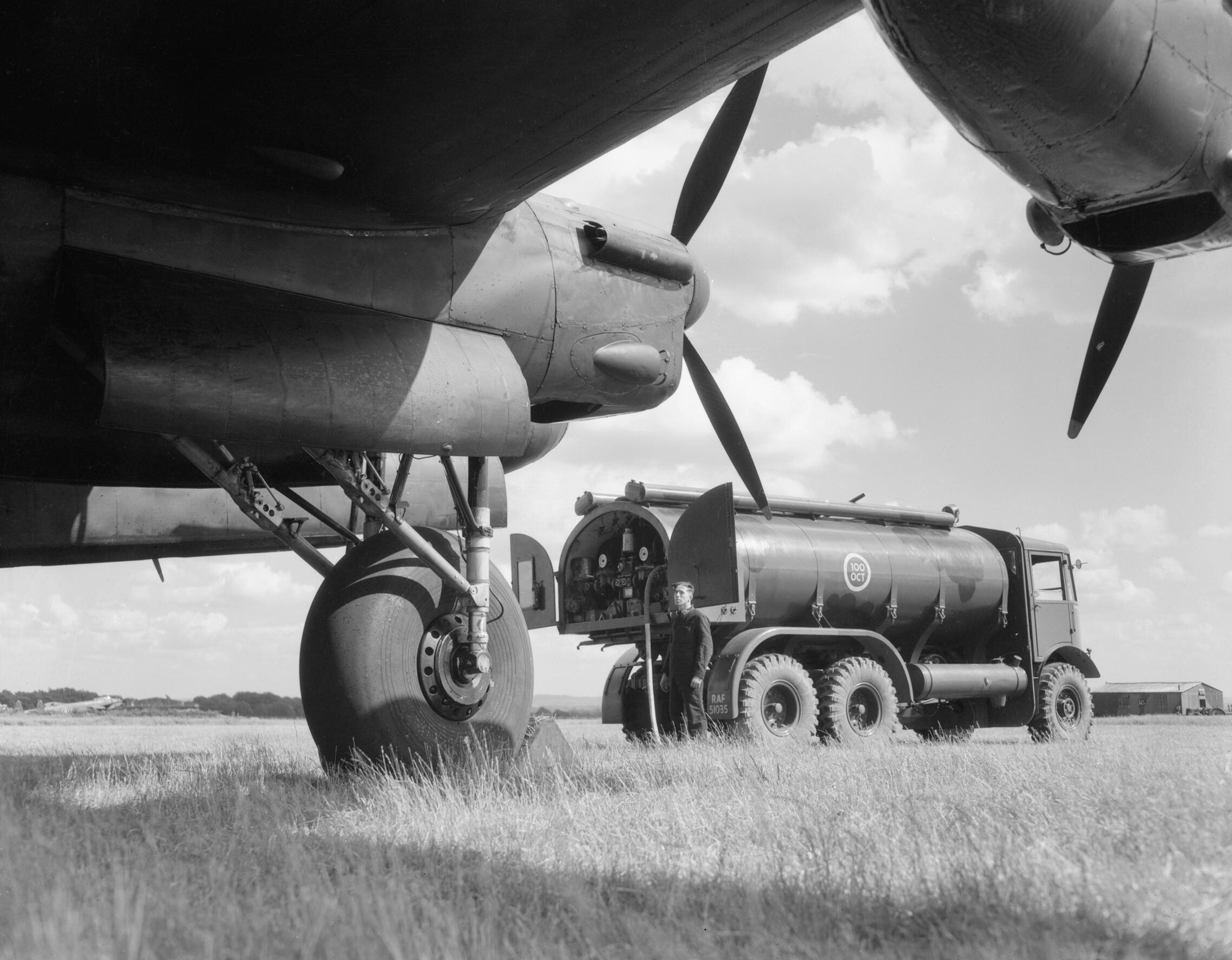 Royal Air Force Bomber Command, 1942-1945. An AEC Type 'A' 2,500-gallon extra heavy petrol tractor refuelling an Avro Lancaster.